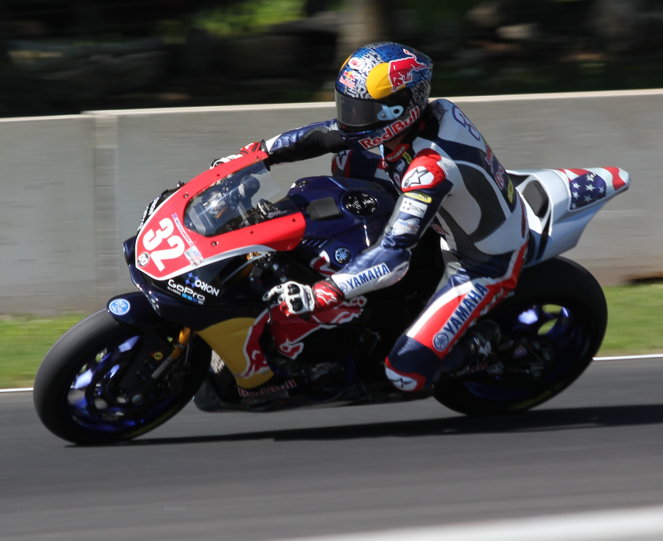 MotoAmerica AMA Superstock 1000 bike rider Jacob Gagne leaning left at Turn 6 at Road America.